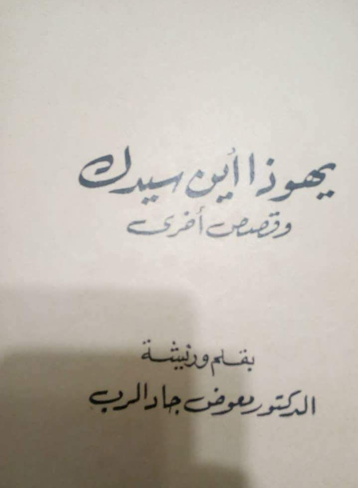 Jude Where is your master